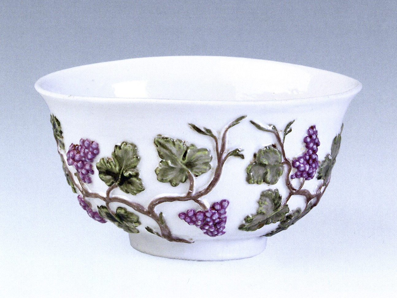 Dmitry Vinogradov. Bowl. 1749